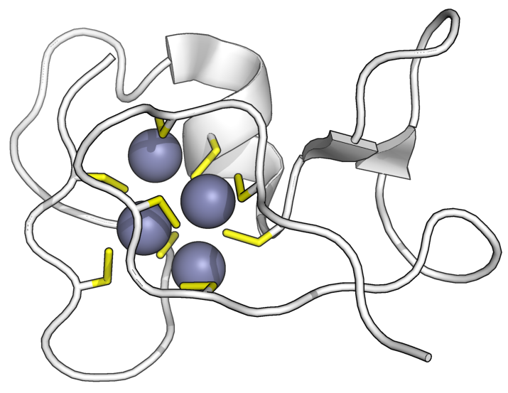 Solution structure of the cyanobacterial SmtA metallothionein (PDB:1JJD). Cysteines in yellow, bound zinc ions in purple.